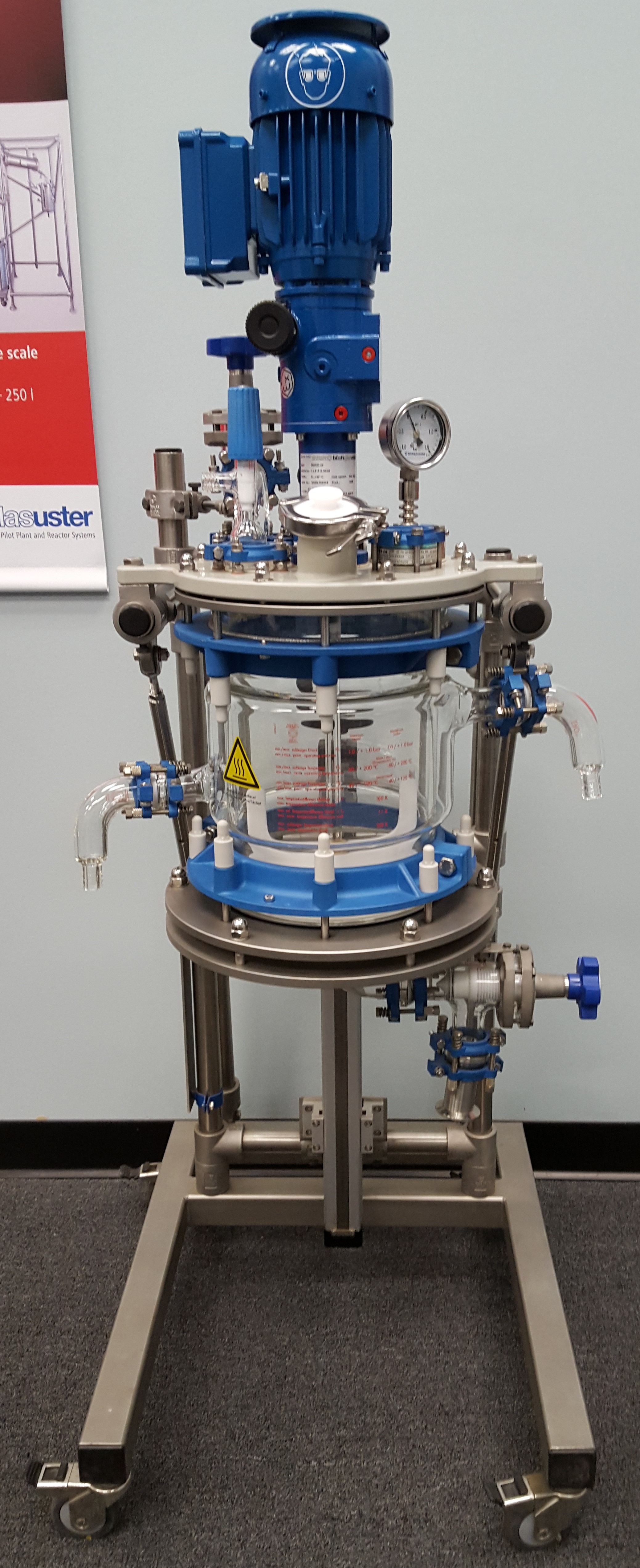 Example of Nutsche Filter